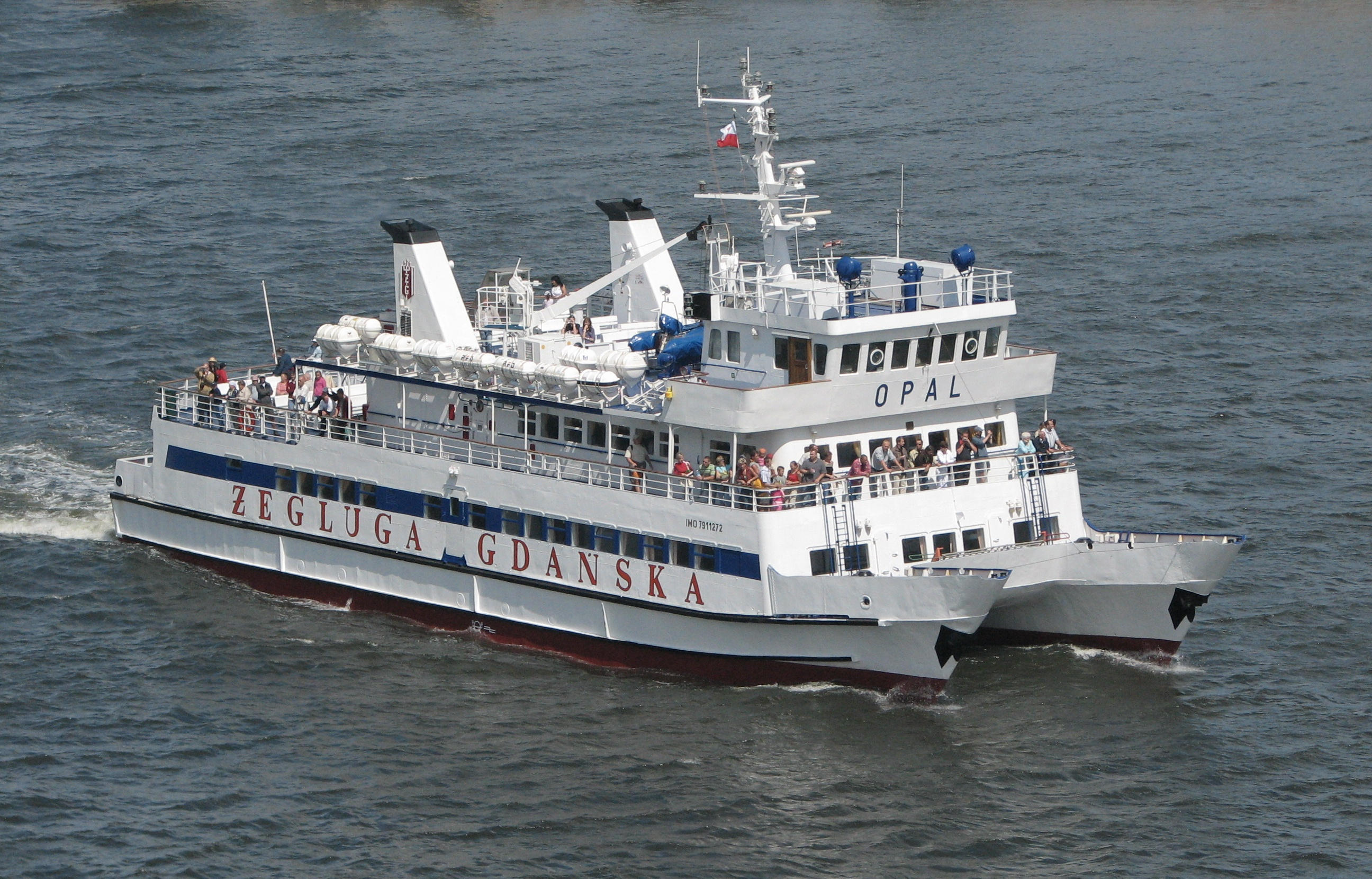 Catamaran Opal in Port of Gdańsk, Poland